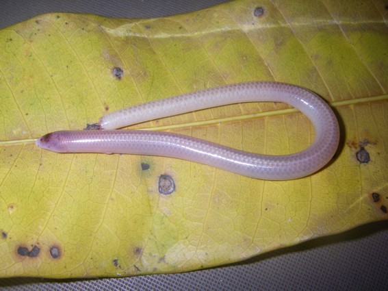 A picture of a freshly sacrified specimen of Sirenoscincus mobydick (dead specimen on a leaf), Bongolava.